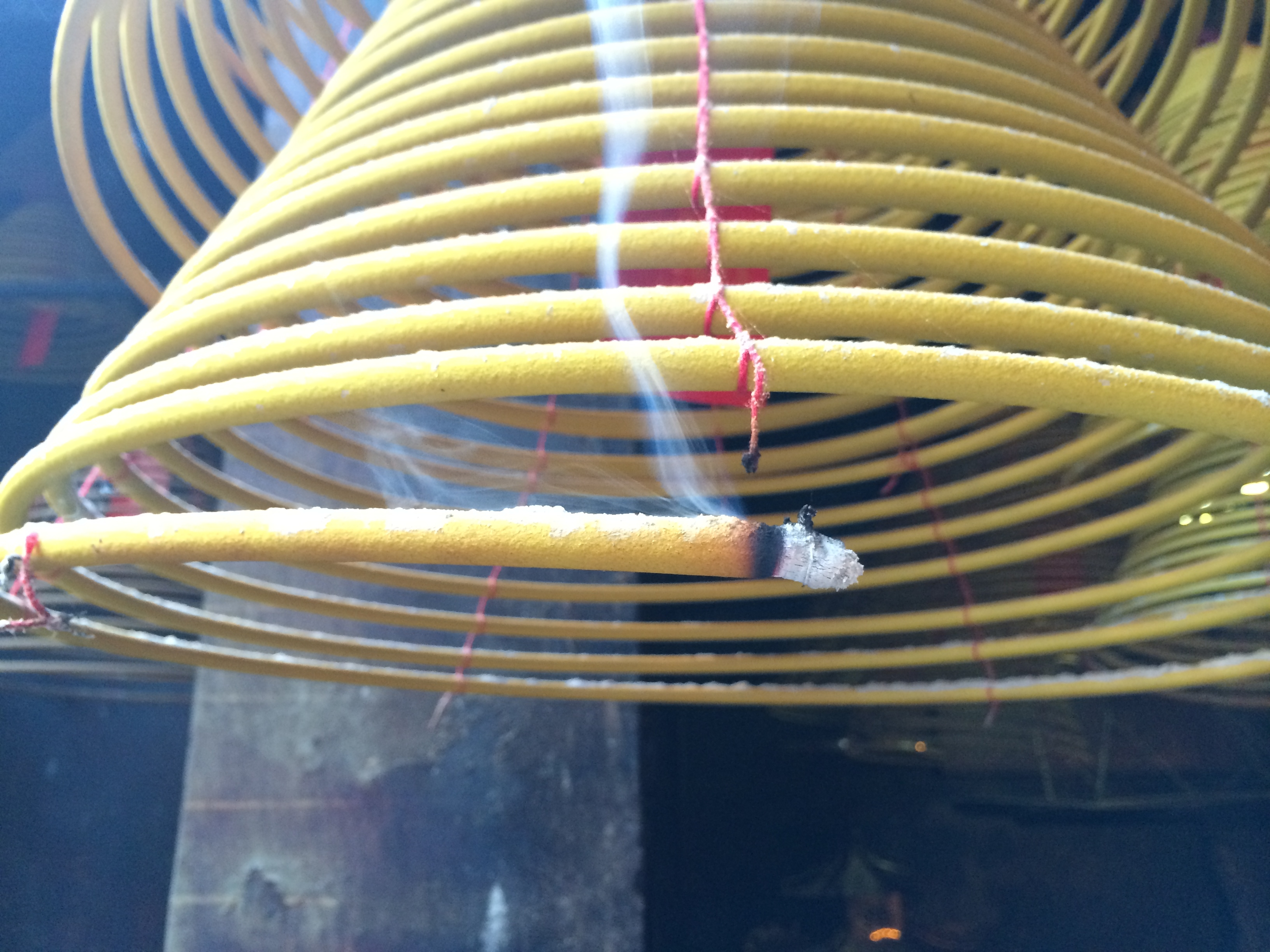 A coil of incense burning in a Chinese temple.